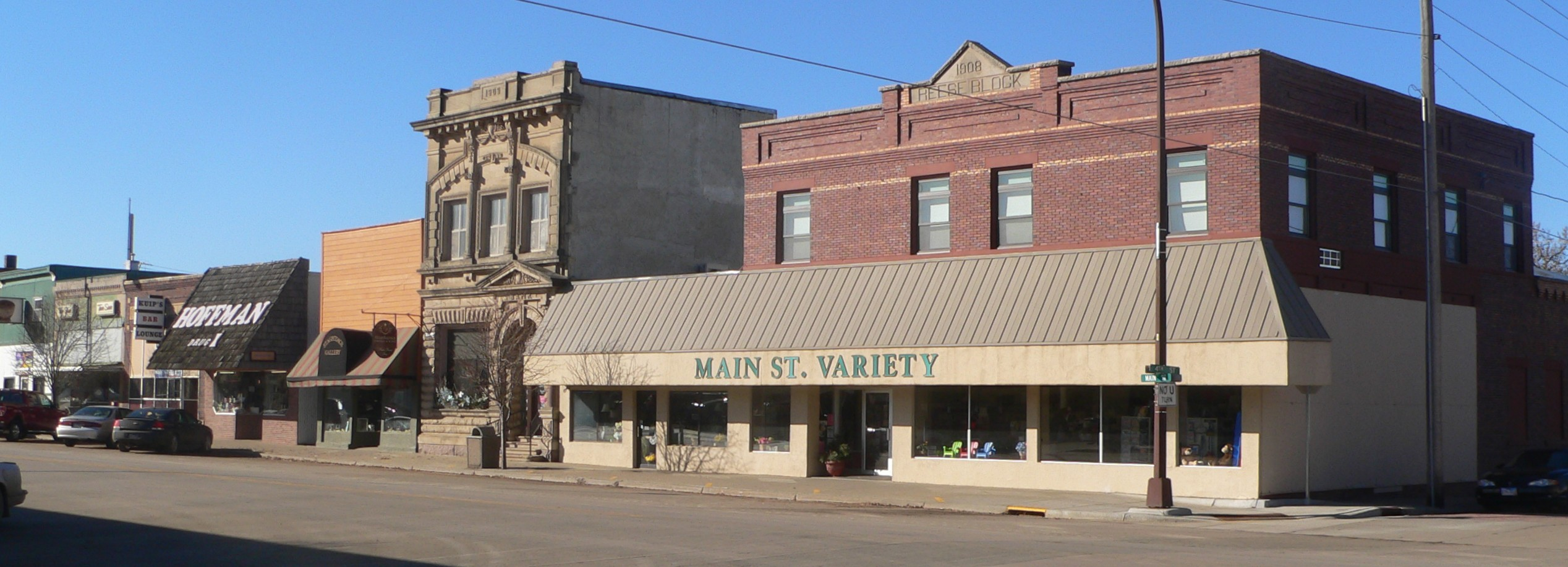 West side of 400s block of Main Street in Platte, South Dakota. Camera is facing southwest from the junction of 4th Street and Main.